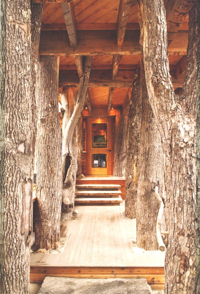 Fork View Lodge Entrance